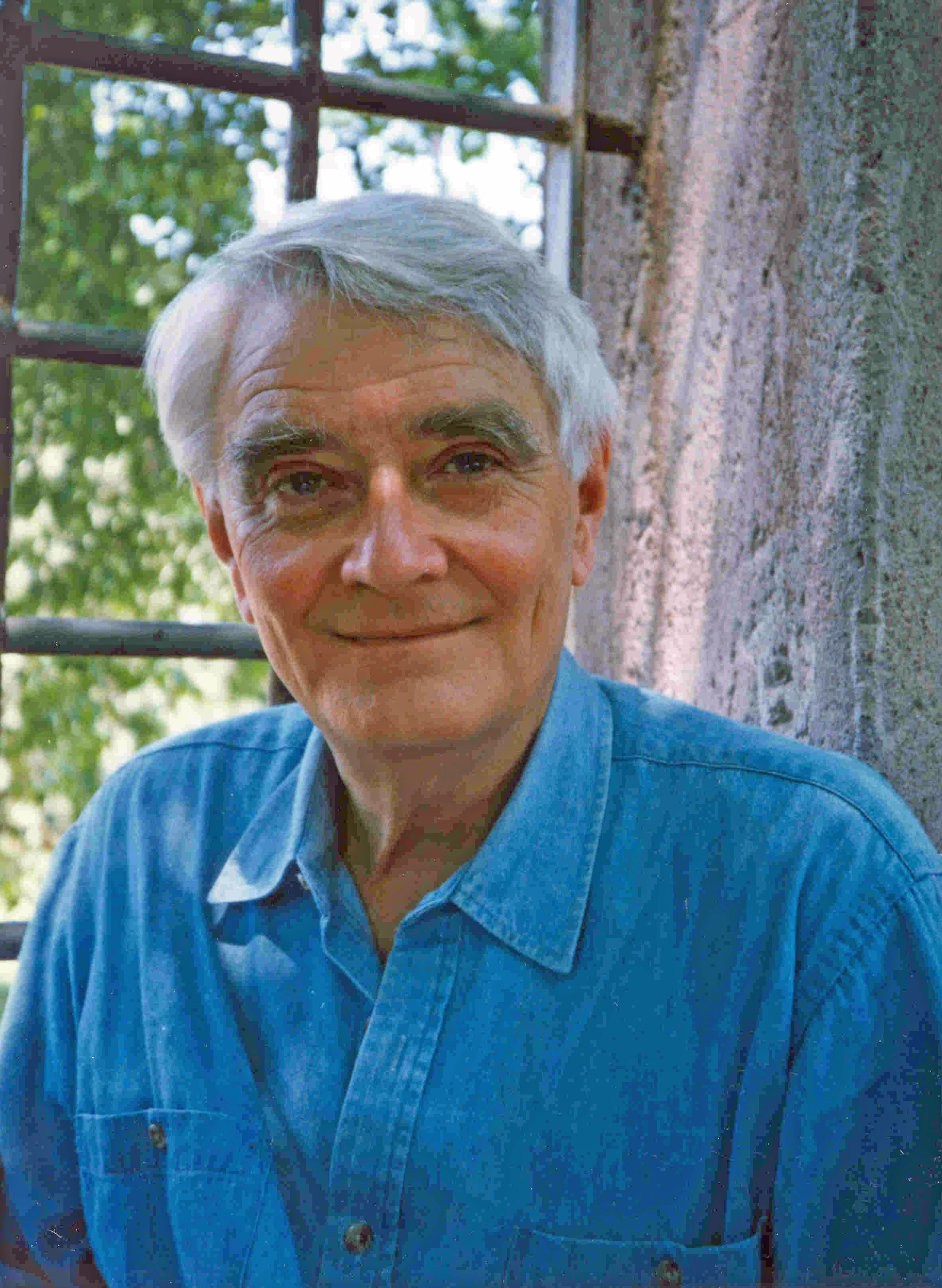 A portrait of Budd Hopkins, taken in Rome, Italy, 1997. Photographer: Carol Rainey